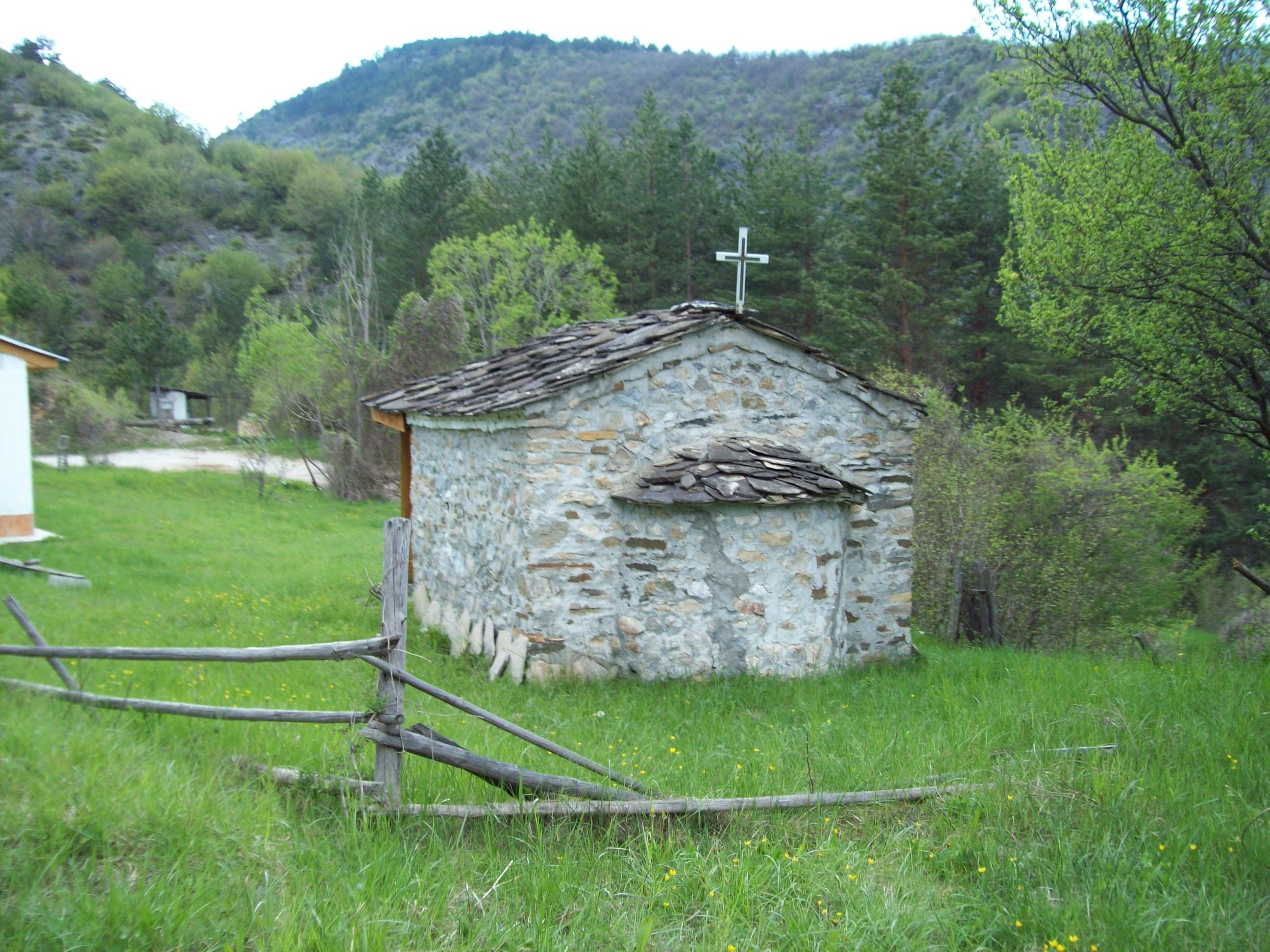 A Chapel near Orehovo vilage